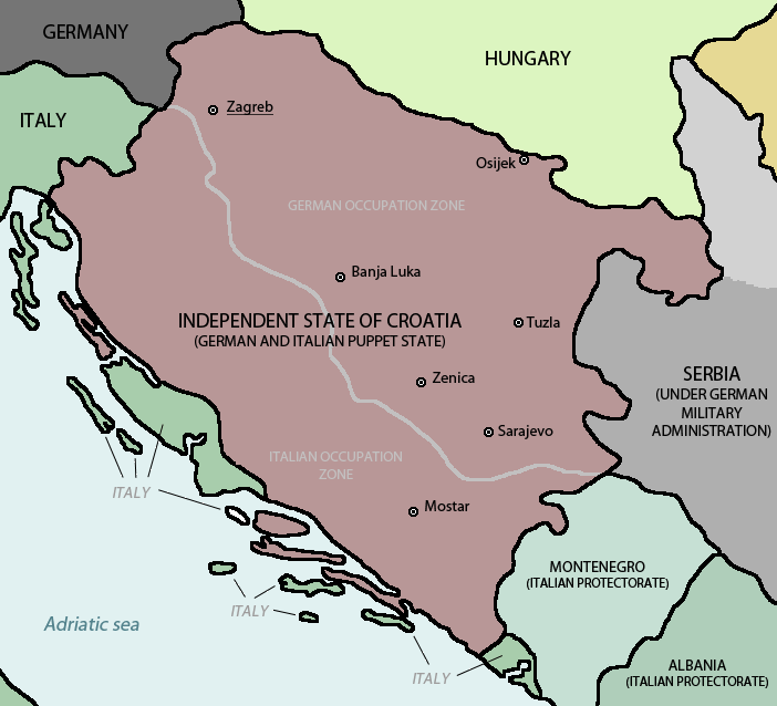 Independent State of Croatia (dark red) in its 1941-43 borders, within Axis-occupied Yugoslavia (the German-Italian military demarcation line is in light grey)